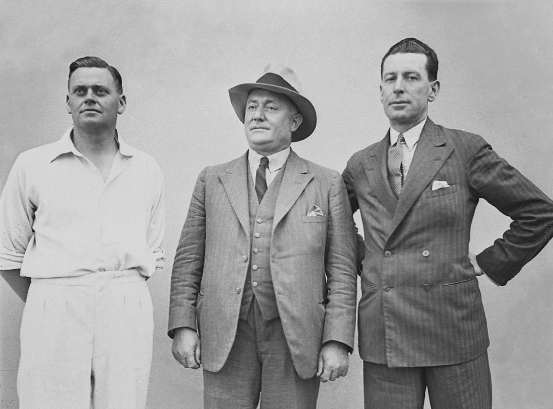 Douglas Jardine and Bill Woodfull, English and Australian cricket captains in 1932-33 Bodyline series